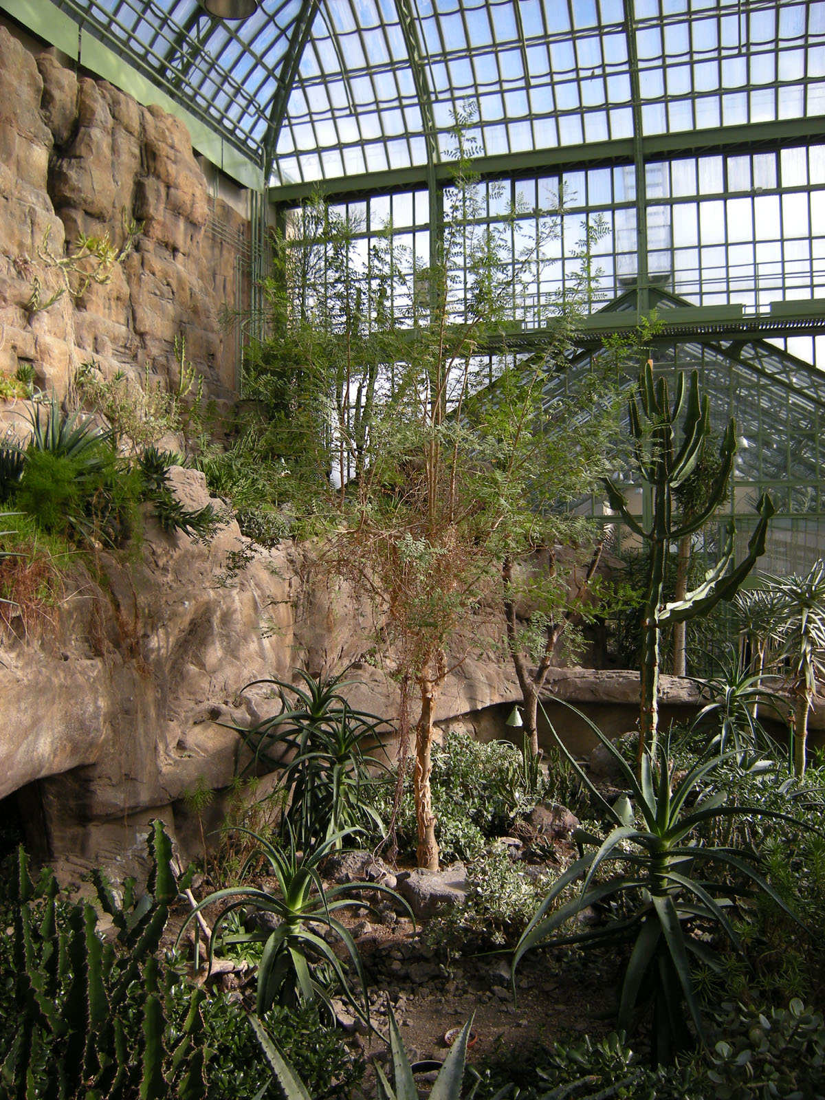 Sundial House (Schönbrunn), now Wüstenhaus, main hall. Mind Fockea in the center of the picture ;)